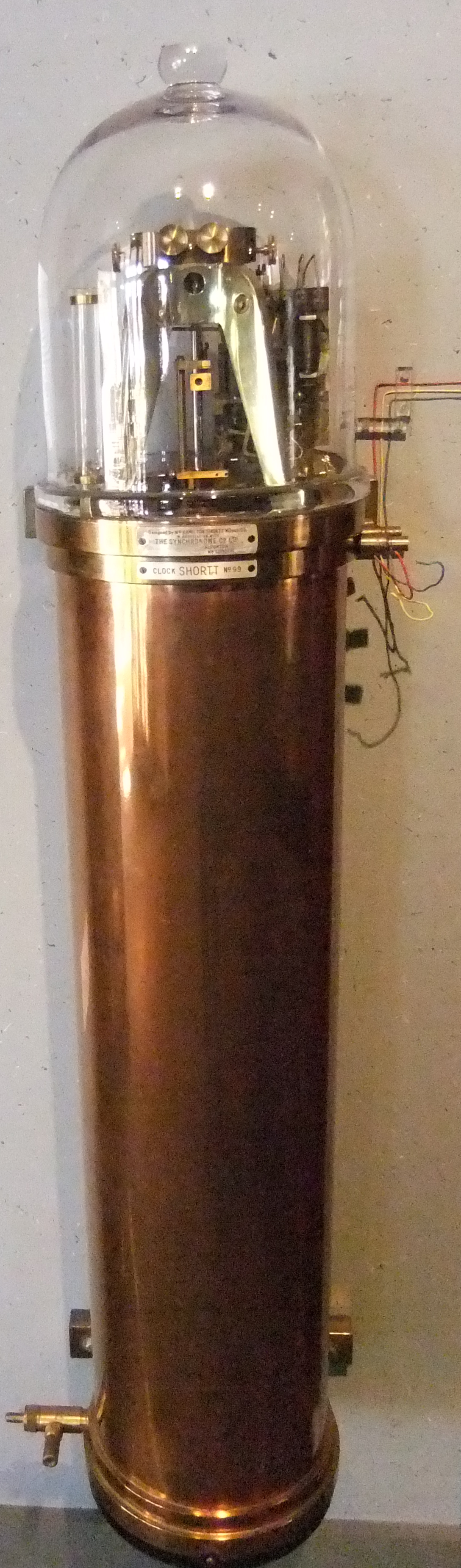 Copper low pressure tank containing the master pendulum of a Shortt Synchronome astronomical regulator clock, the most accurate pendulum clock ever manufactured, in the World Museum, Liverpool. The pendulum was electrically linked to a slave pendulum in a separate clock unit standing several feet away (out of shot). The slave pendulum connected to the clock gears, leaving the master pendulum to swing free of disturbance. This clock was the highest standard of timekeeping, used as a primary time standard from the 1920s until atomic clocks became available in the 1970s. It had an accuracy of better than a second per year, sufficiently precise to measure variations in the rotational speed of the Earth. Also used in WWII to calibrate ASDIC systems. Invented by William Hamilton Shortt and made by the Synchronome Company in 1937.